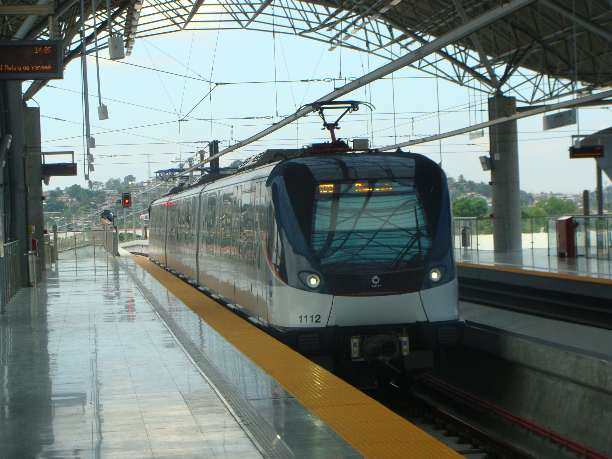 An Alstom Metropolis train owned by the Panama Metro arriving at Pueblo Nuevo station.